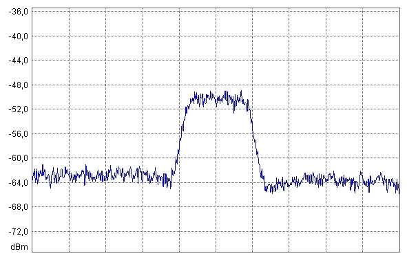 spectrum from a QPSK Signal